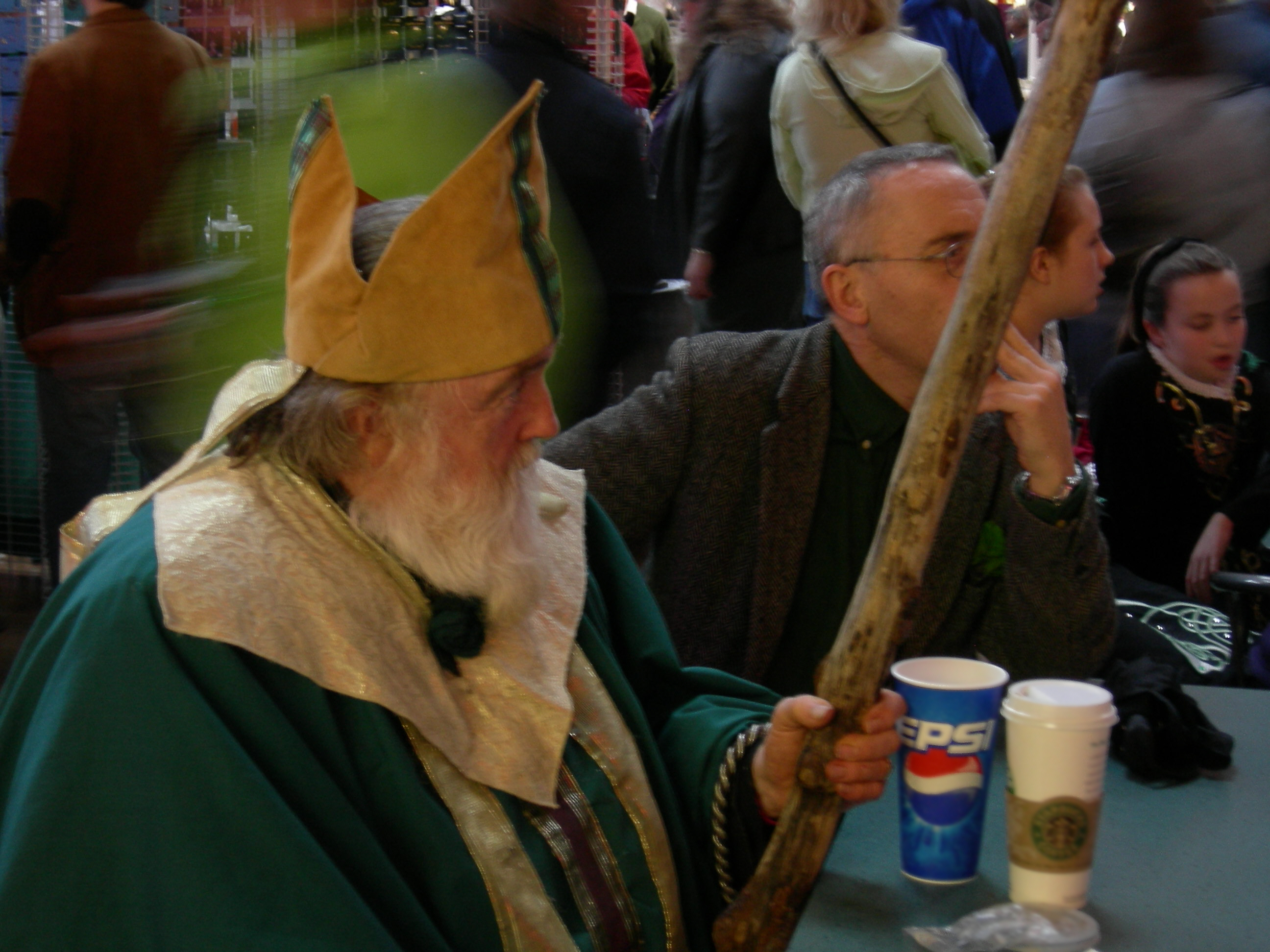 Man dressed as St. Patrick. Center House, Seattle Center, Seattle, Washington as part of the Festál Irish Festival.